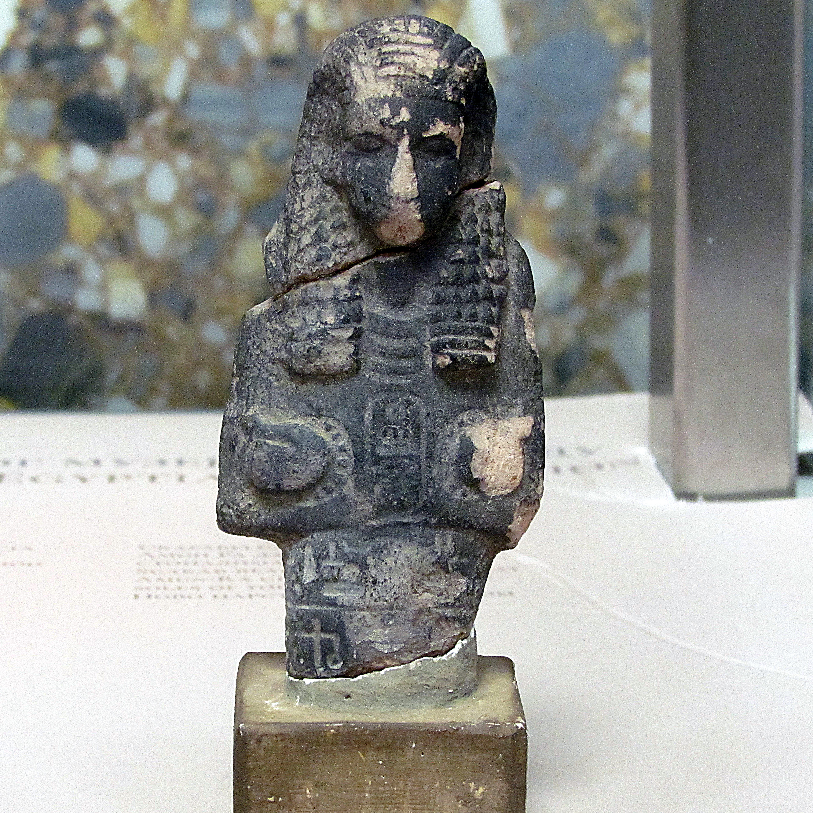 Ushabti figurine, National Museum of Serbia